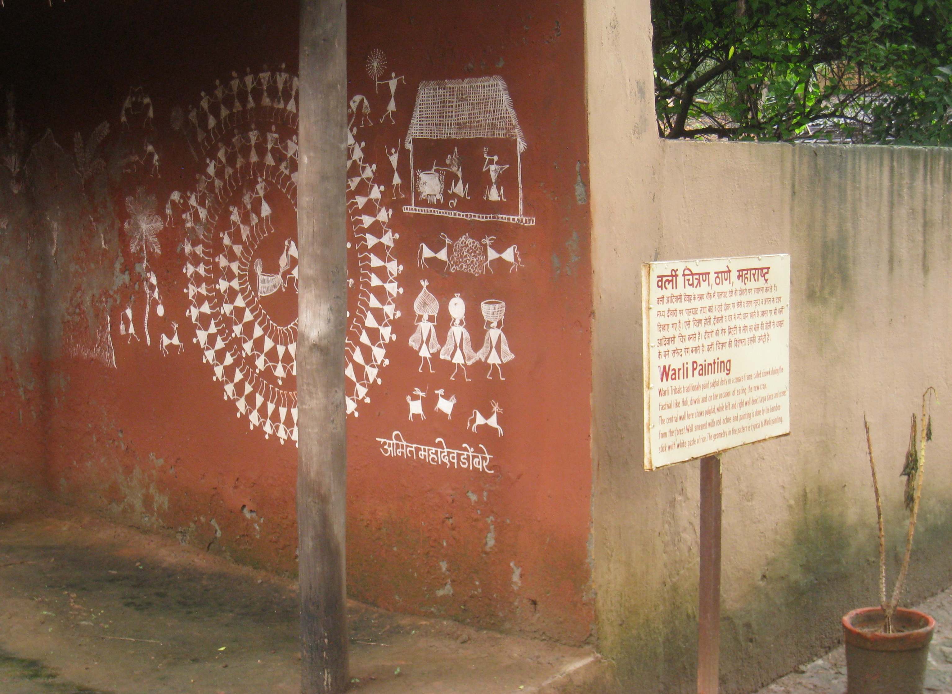 Village complex in Crafts Museum, New Delhi, India.